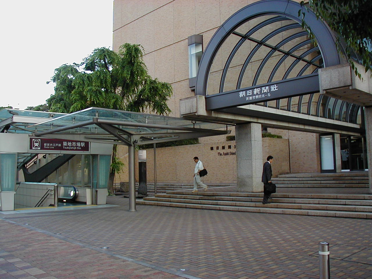 Entry to Tsukiji-shijo subway station at front entrance of Asahi Shinbun Tokyo HQ building in Tokyo, Japan